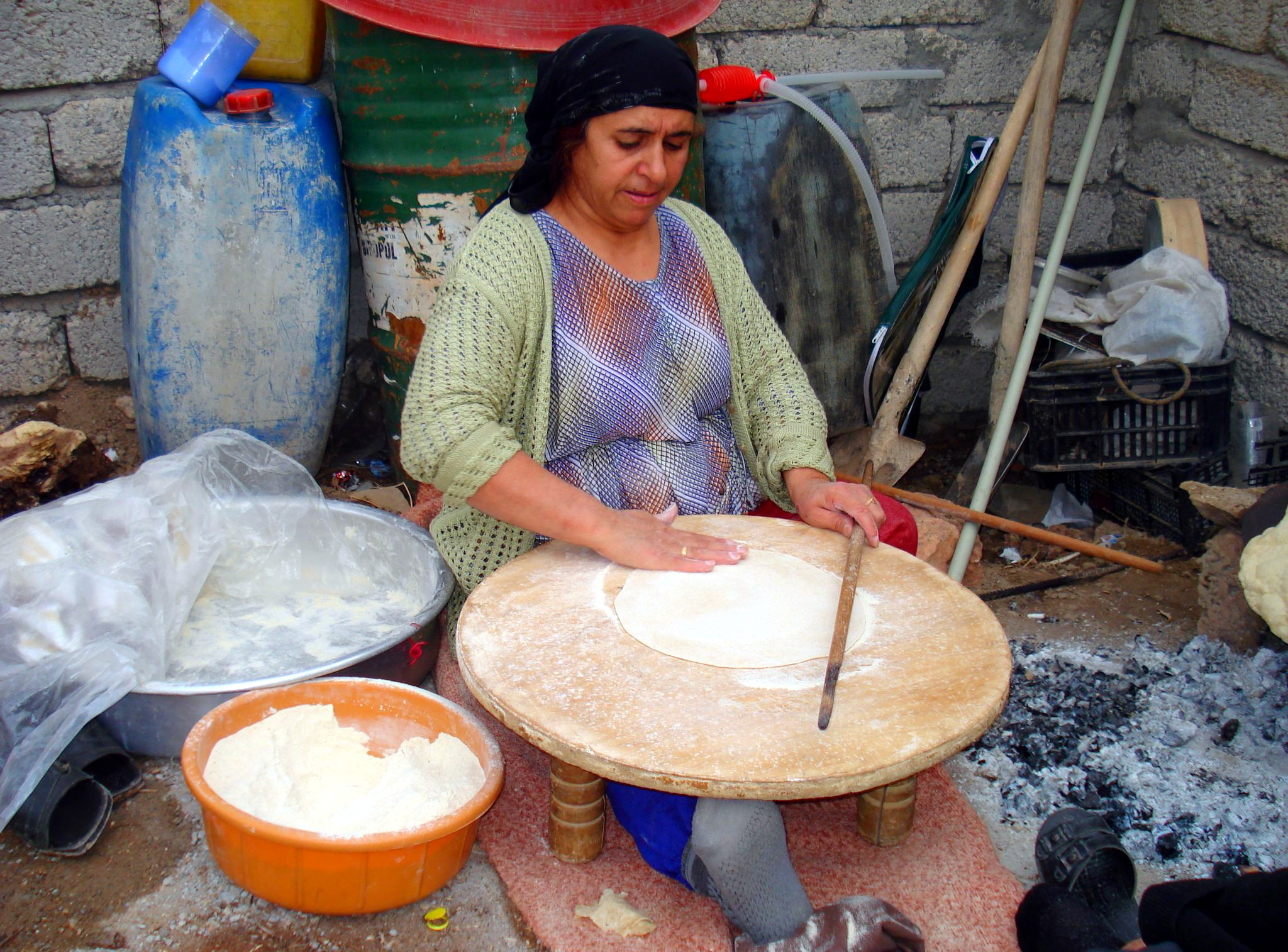 Woman making flat bread in a Kurdish village near the Turkish border